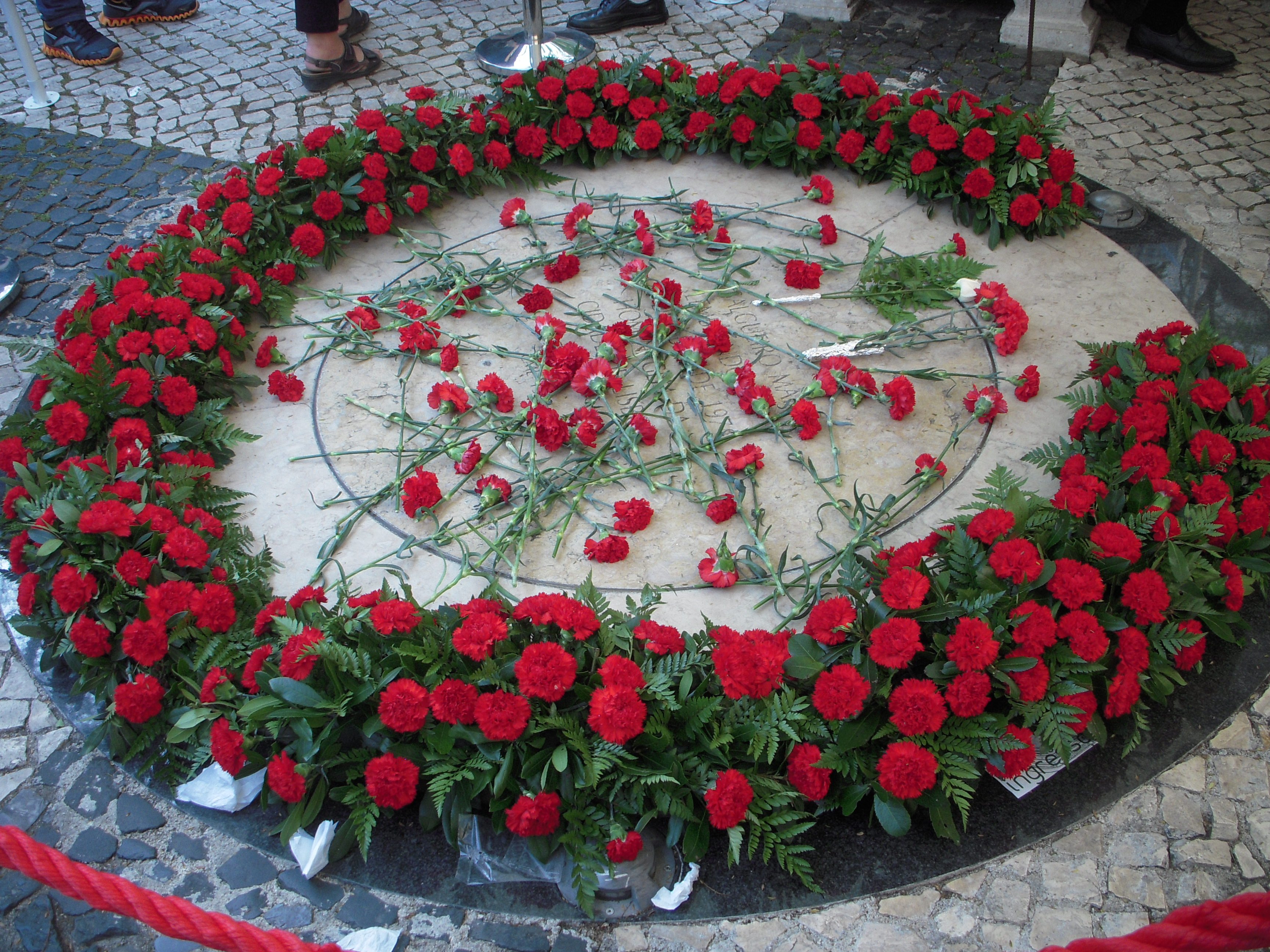 Largo do Carmo in Lisaboa, Portugal, on April 25, 2013, the 39'th anniversary of the Carnation Revolution, that took place on this square in 1974.